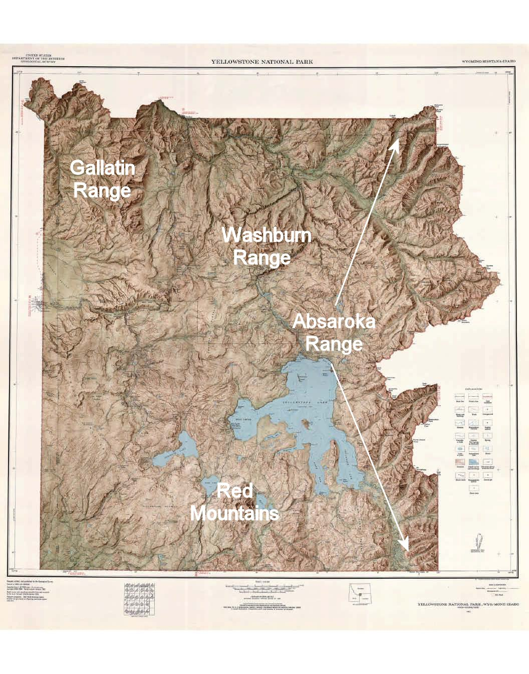 Yellowstone National Park Topographic Map with Mountain Ranges annotated.